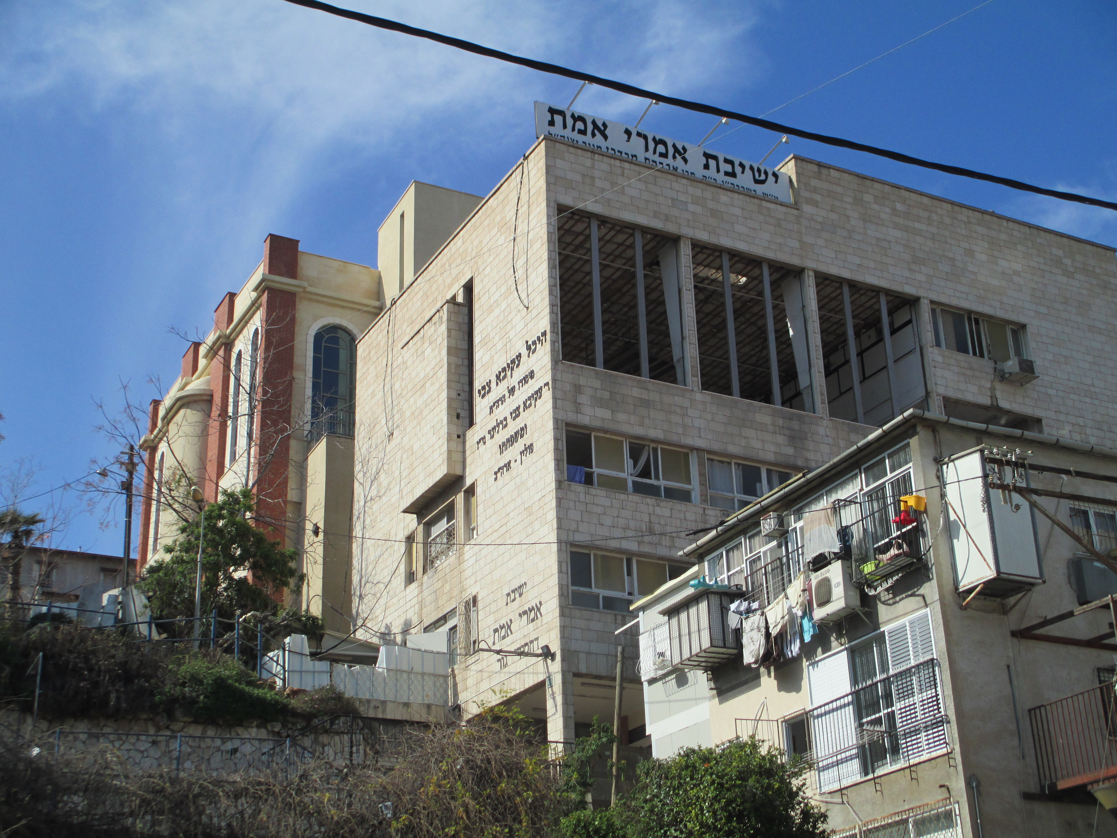 imrei emes (gur) yeshiva in bnei brak ישיבת אמרי אמת (גור) בבני ברק